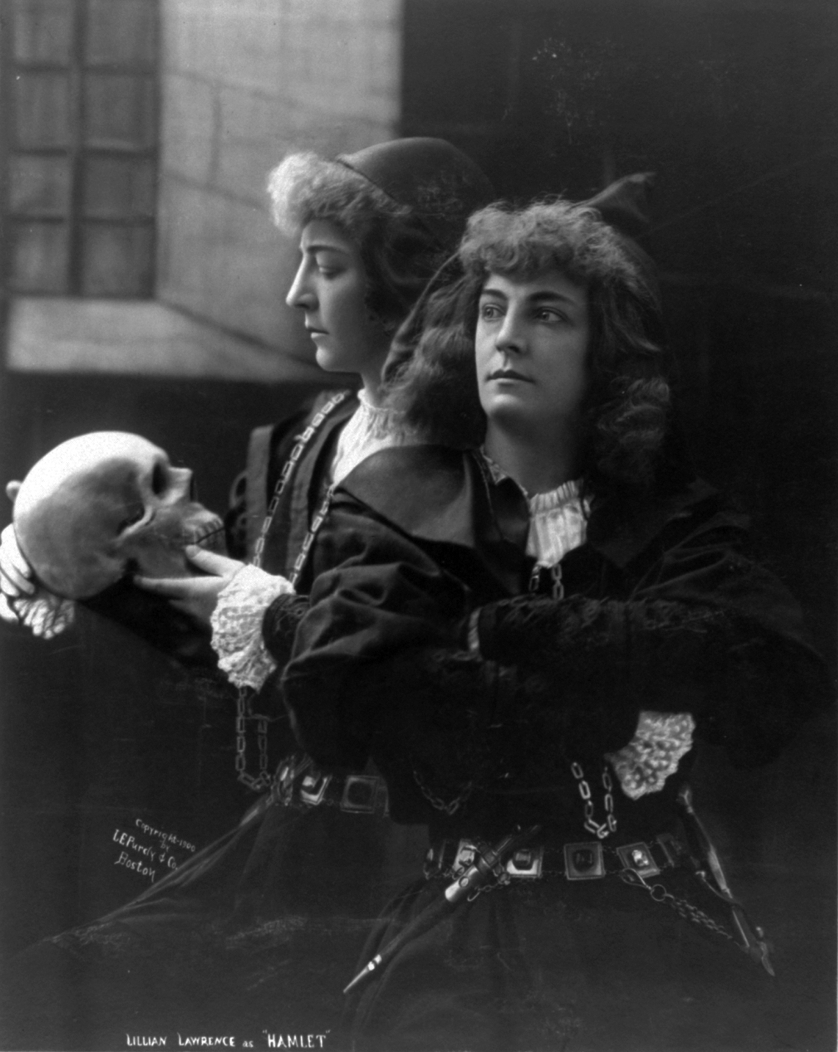 Lillian Lawrence as Hamlet